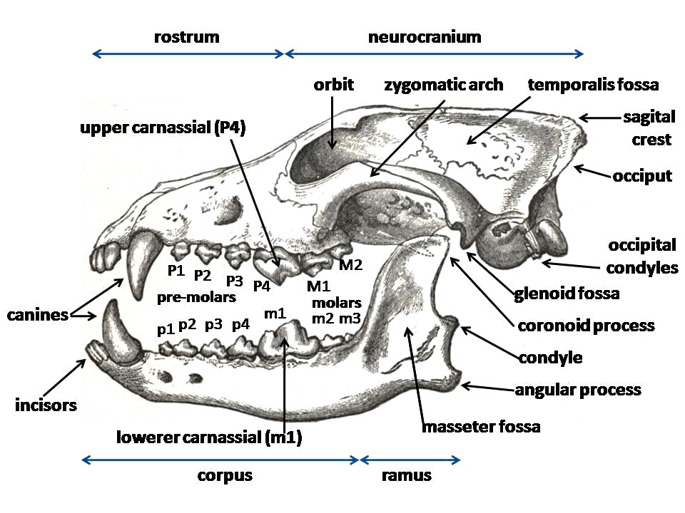 Drawing of a wolf cranium with key anatomical parts labelled. The skull outline is from Mirvat 1890 available at: and the common anatomical terms available from